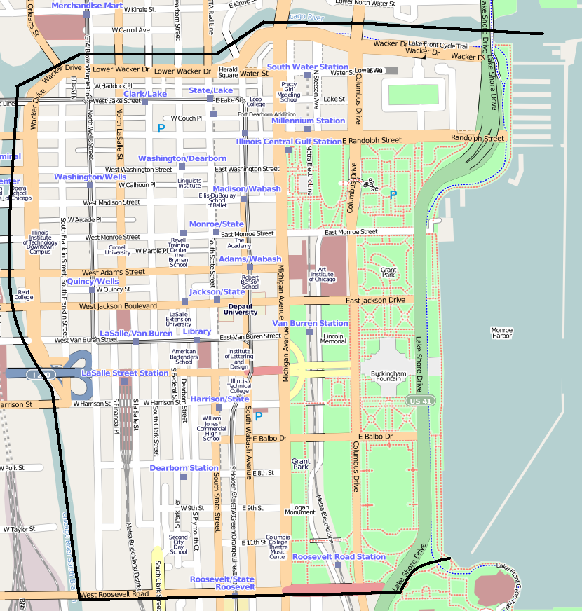 Chicago Loop This map may be incomplete, and may contain errors. Don't rely solely on it for navigation.